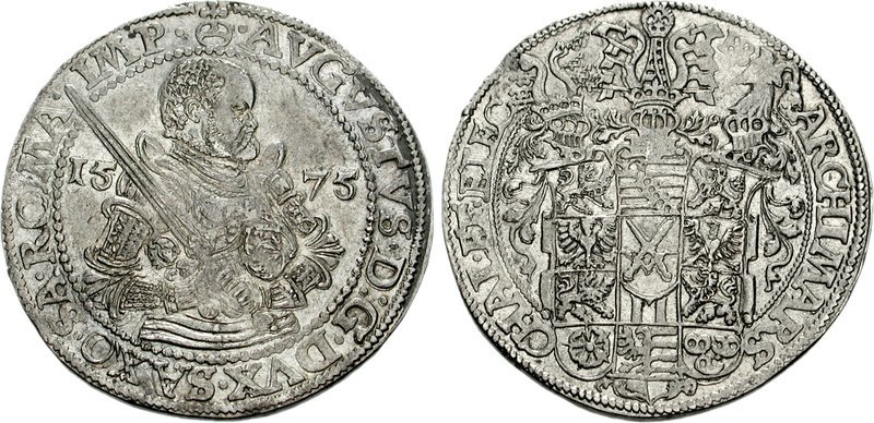 GERMANY, Sachsen-Albertinische Linie. August. Elector, 1553-1586. AR Taler (29.09 g, 6h). Dresden mint. Dated 1575. Armored bust right, holding sword with both hands, 15 75 across / Coat of arms surmounted by three helmets. Schnee 725; K&K 68; Davenport 9798. EF.